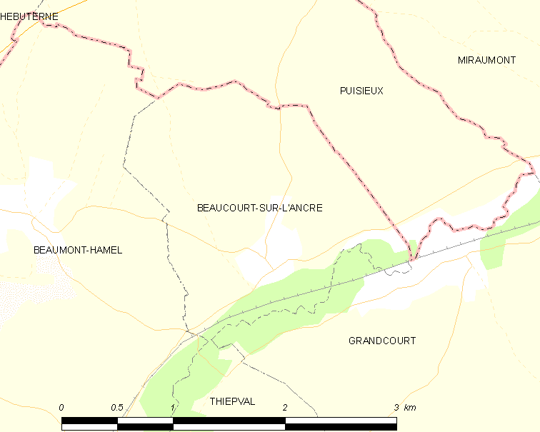 Map of French municipality Beaucourt-sur-l'Ancre